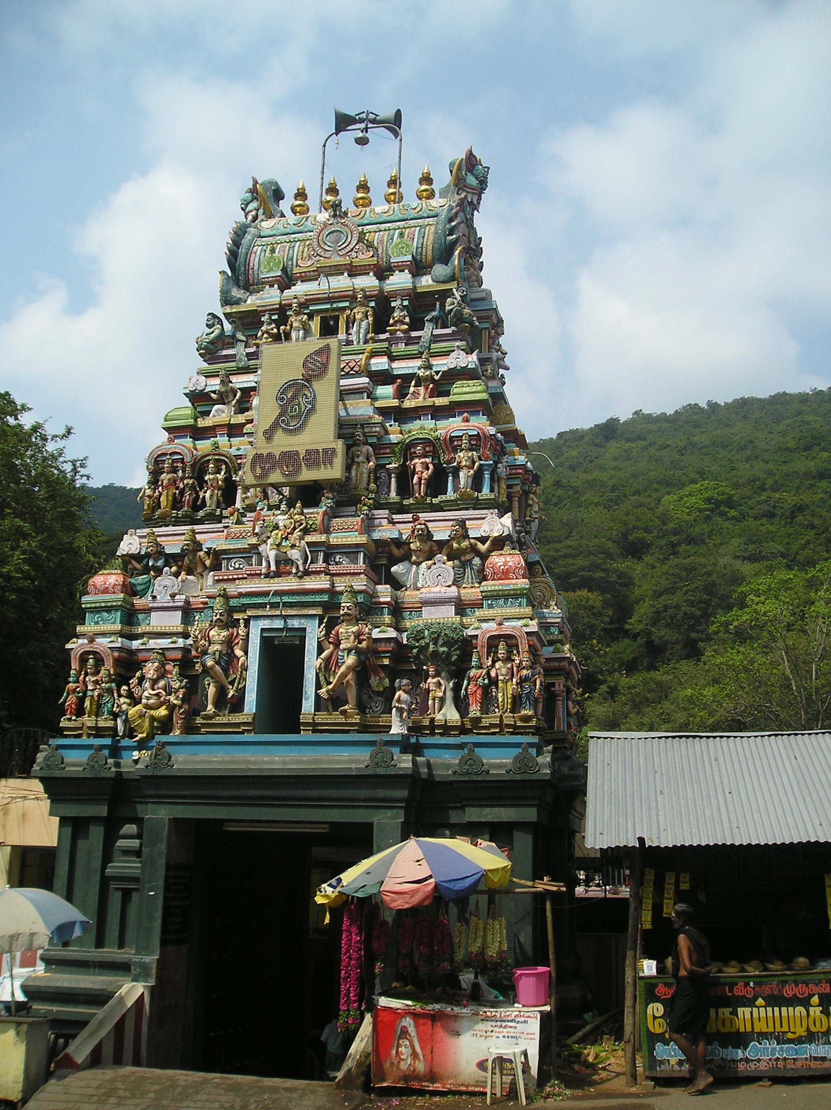 Pazhamuthir solai Murugan 1